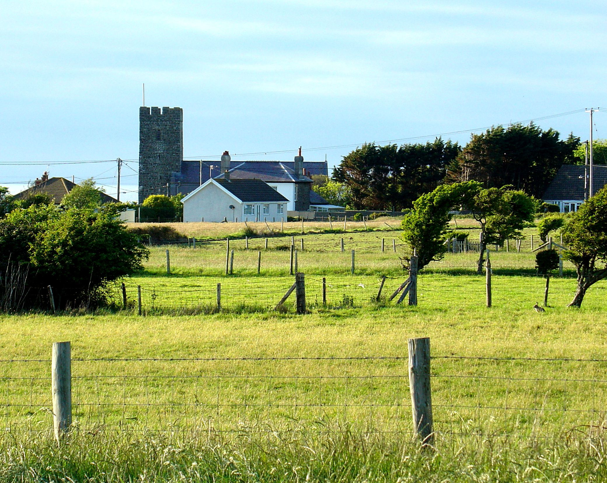 A view of Llansantffraed Church from fields near Llanon, Ceredigion, mid Wales